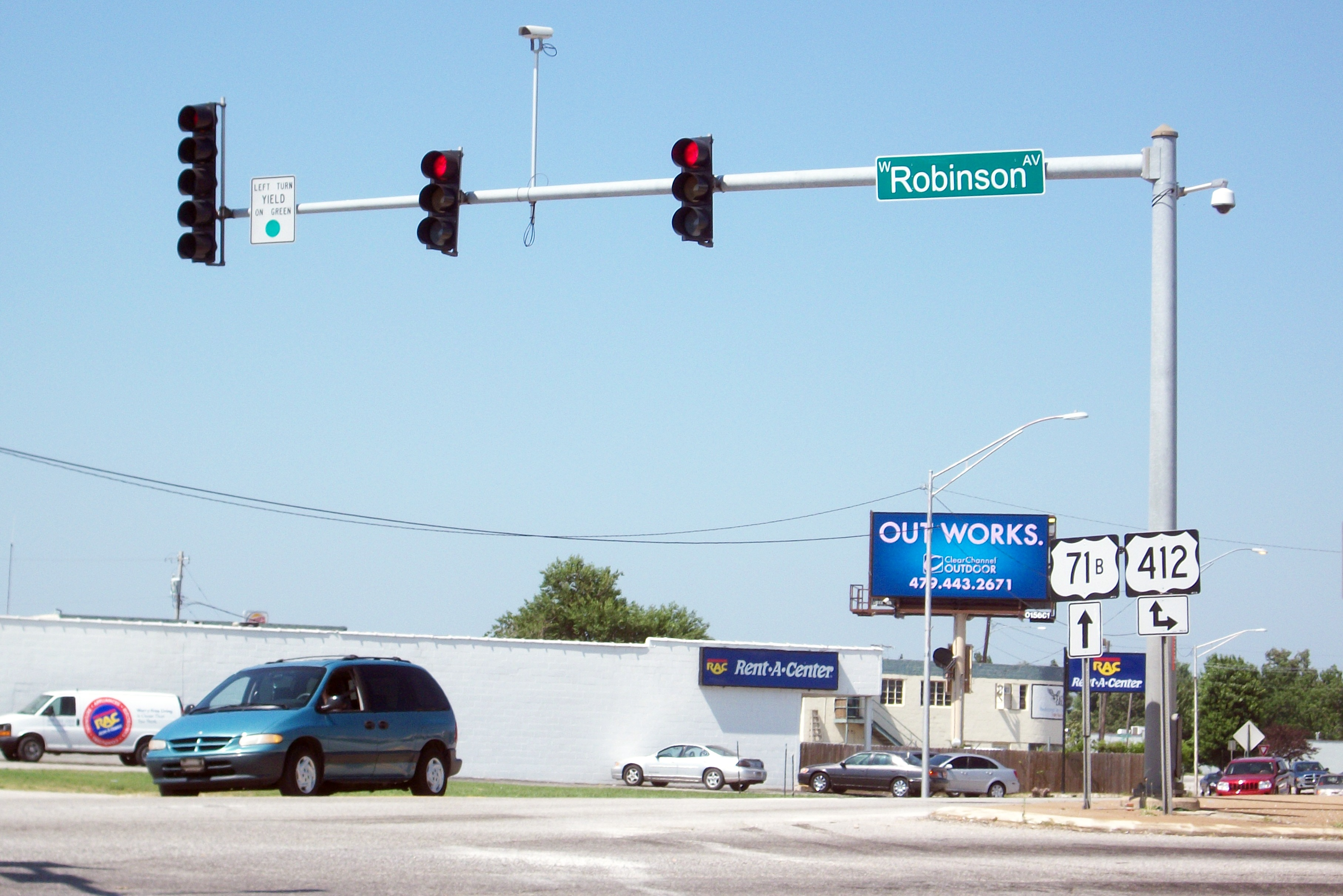 US Route 71B intersects US 412 in Springdale, Washington County, Arkansas.